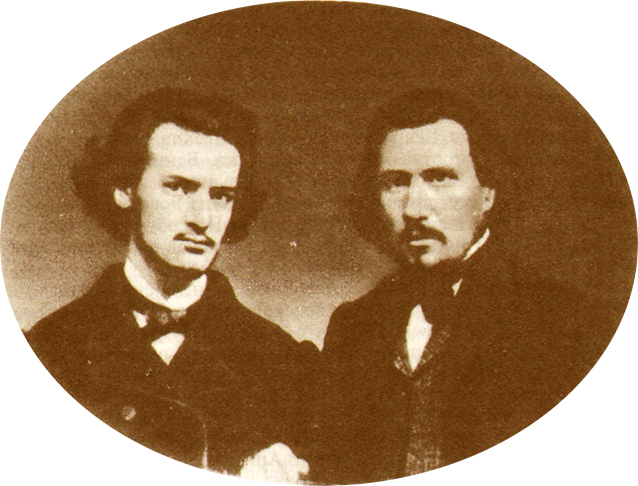 Arthur Benni and Nikolay Leskov